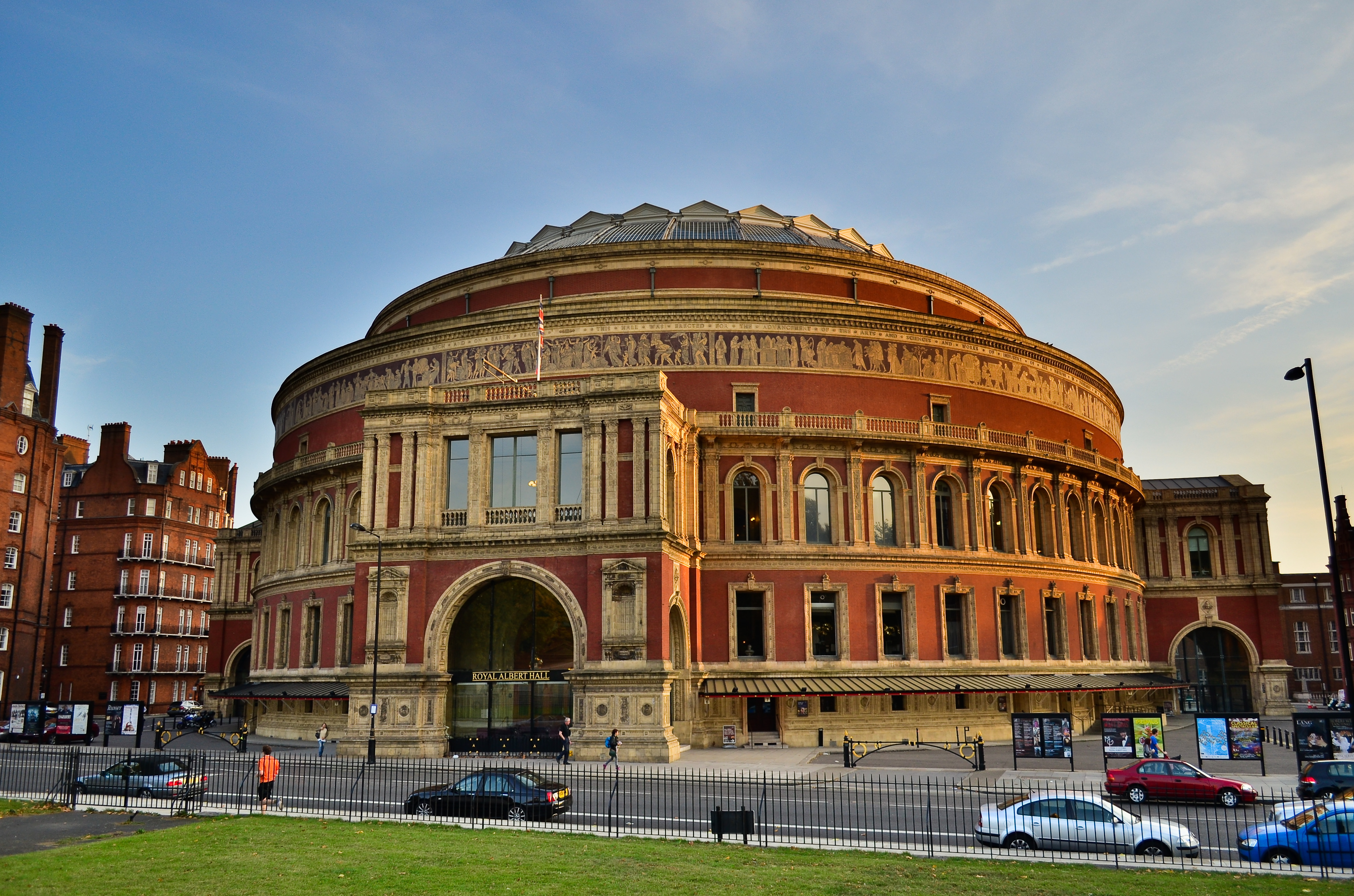 The Royal Albert Hall, Kensington Road, London.